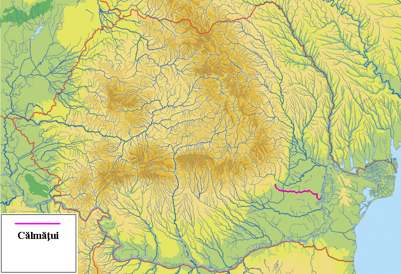 Map of Raul Calmatui